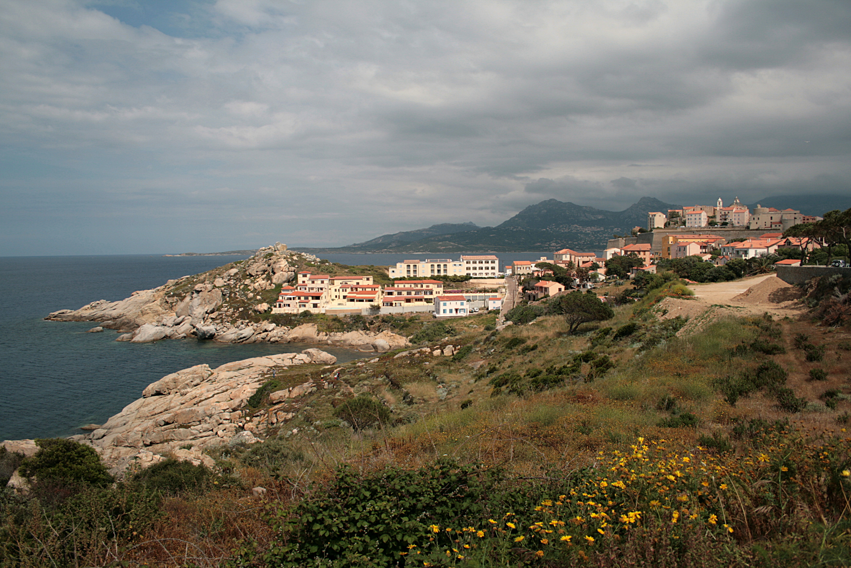 Calvi (Haute-Corse) - View on the Bay, Punta San Francesco and the old citadel area.